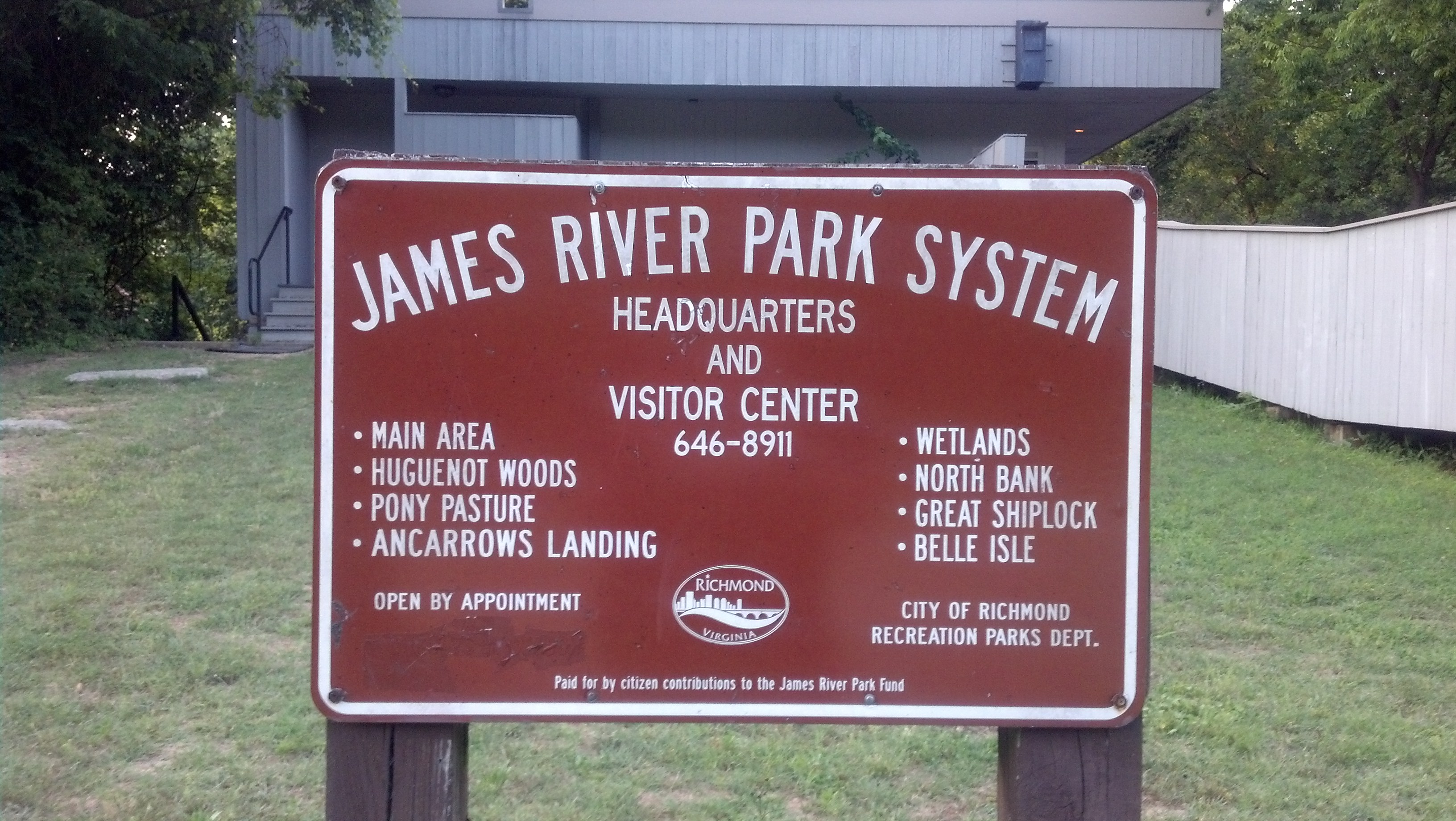 This picture was taken at the James River Park System headquarters building June 30, 2014 at the Reedy Creek entrance to JRPS. It describes several sections of the park and gives a feel for the 70's era architecture of the building.